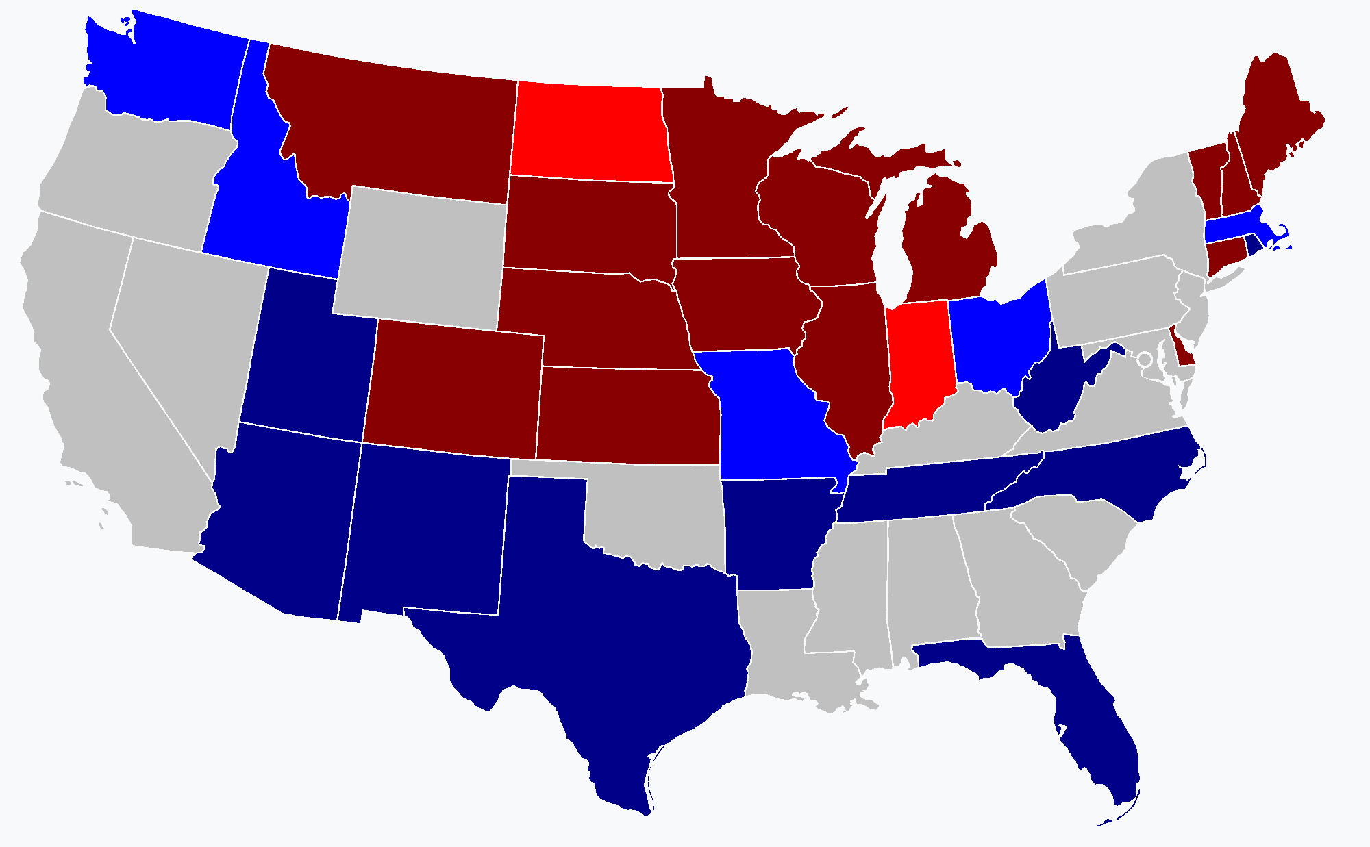 A map showing the results of the 1944 United States Gubernatorial elections